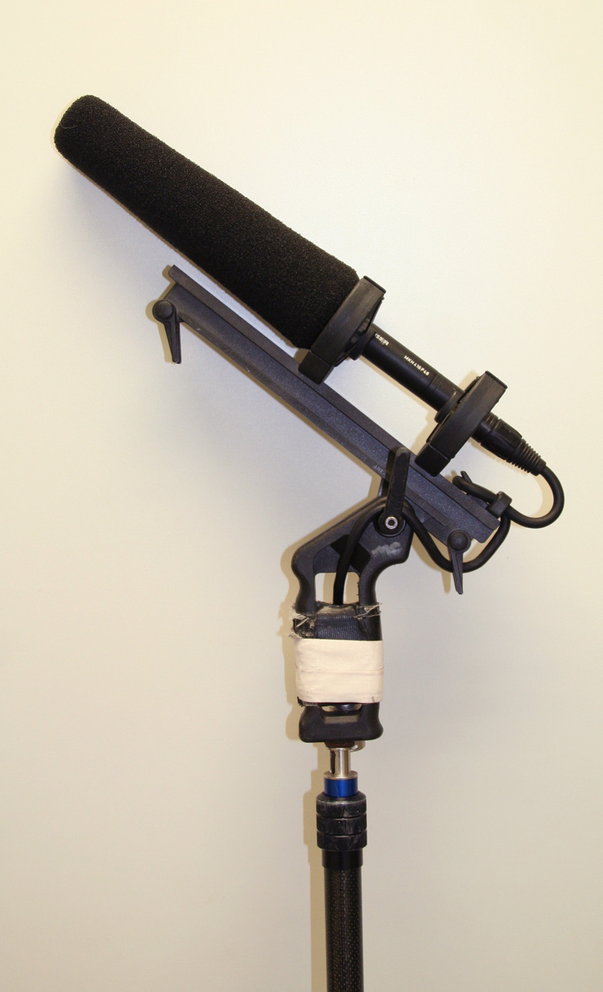 Mic_boom_with_light_foam_windshield